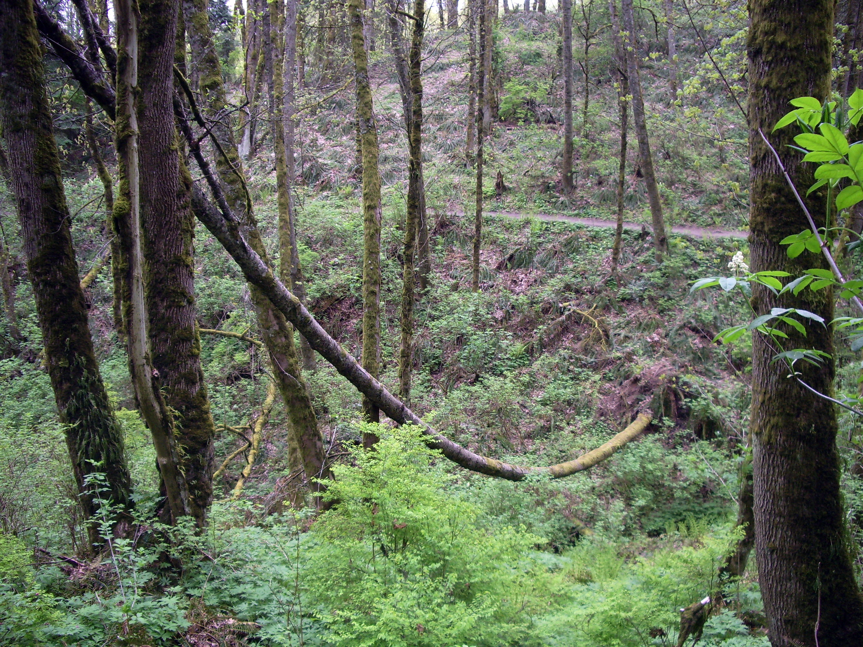 Forest Park is managed in many respects as a wilderness; unfortunately, old growth trees were logged as recently as the 1950s creating second growth areas such as this with mature Alder. Stumps are visible along the far slope. Here a tree has fallen, probably from recent winter storm winds. It likely will be allowed to naturally decompose to provide habitat for the many species living here, as well as enrich and stabilize the soil. This photo was taken from Wildwood Trail, which is also visible on the far slope.